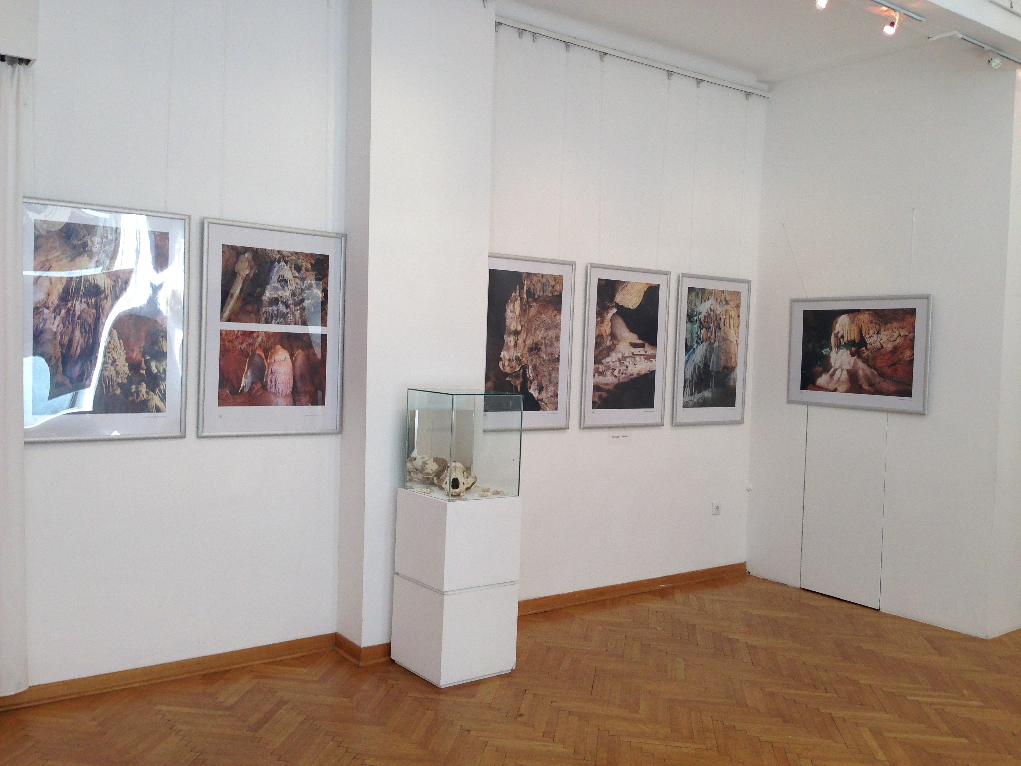 Stanko Kostic Photo Exhibition, Gallery of Science and Technology, Serbian Academy of Sciences and Arts